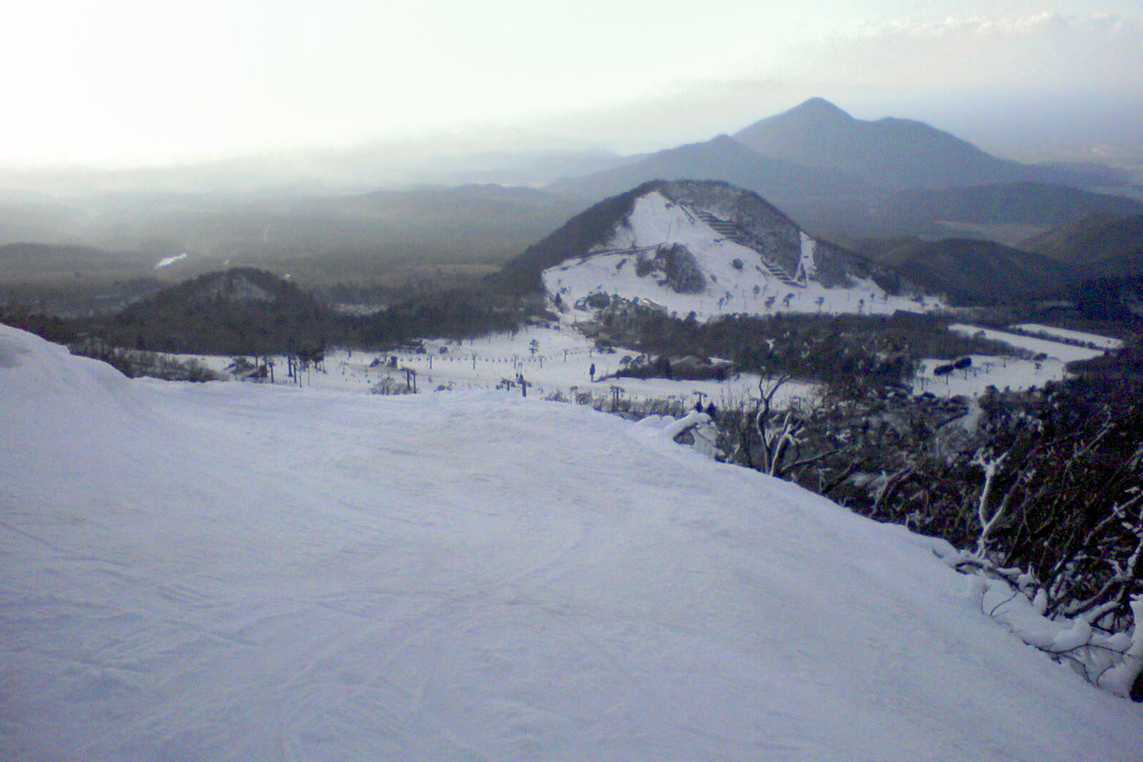 Daisen Ski Resort view from Daisen International Ski Resort at Daisen, Tottori prefecture, Japan.